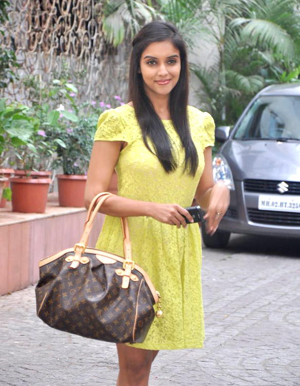 Asin housefull 2 party at akshay kumars house